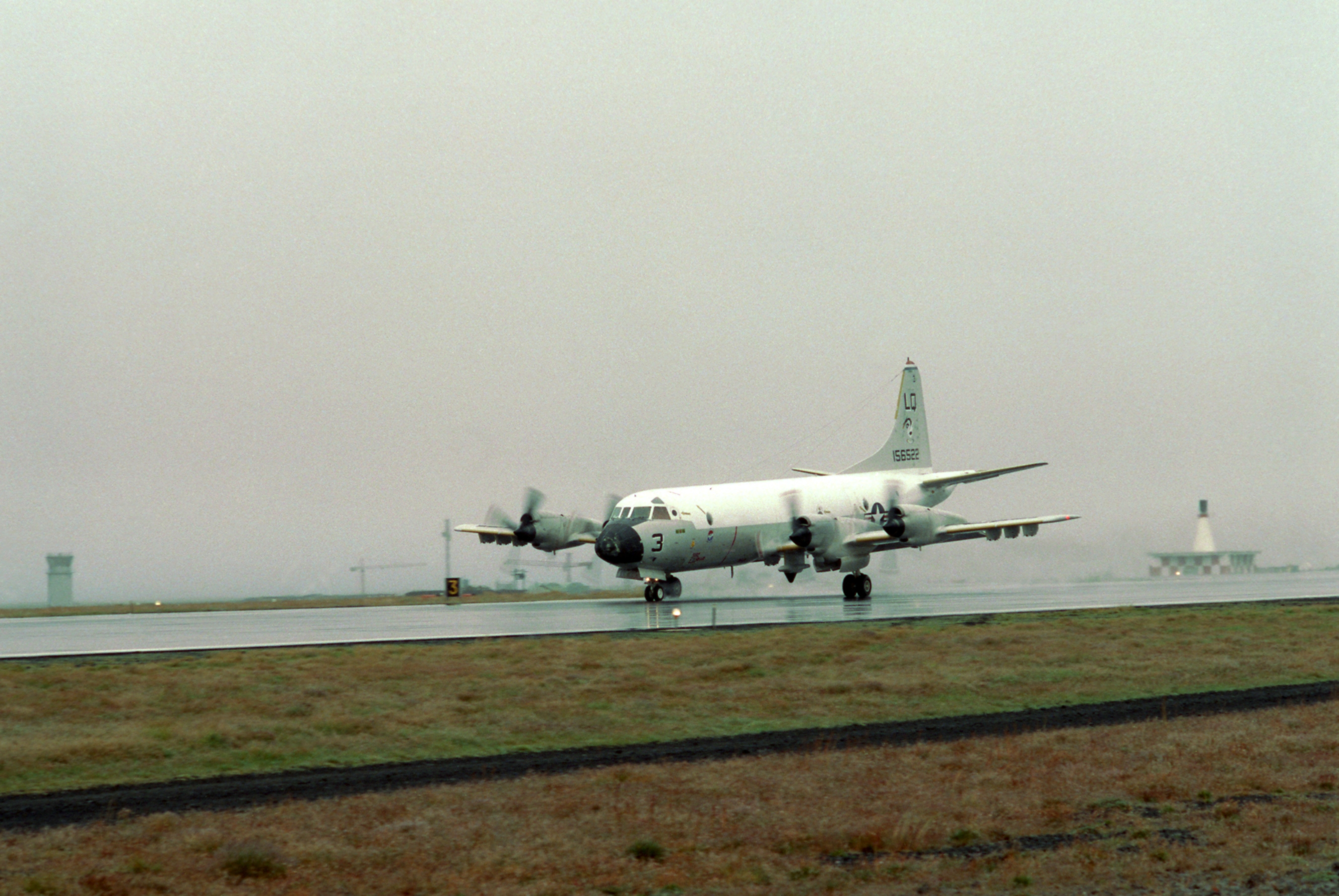 A U.S. Navy Lockheed P-3C-115-LO Orion aircraft (BuNo 156522) from Patrol Squadron 56 (VP-56) Dragons taxis along the flight line at Naval Air Station Keflavik, Iceland, in 1977. 156522 was retired on 18 January 2005.